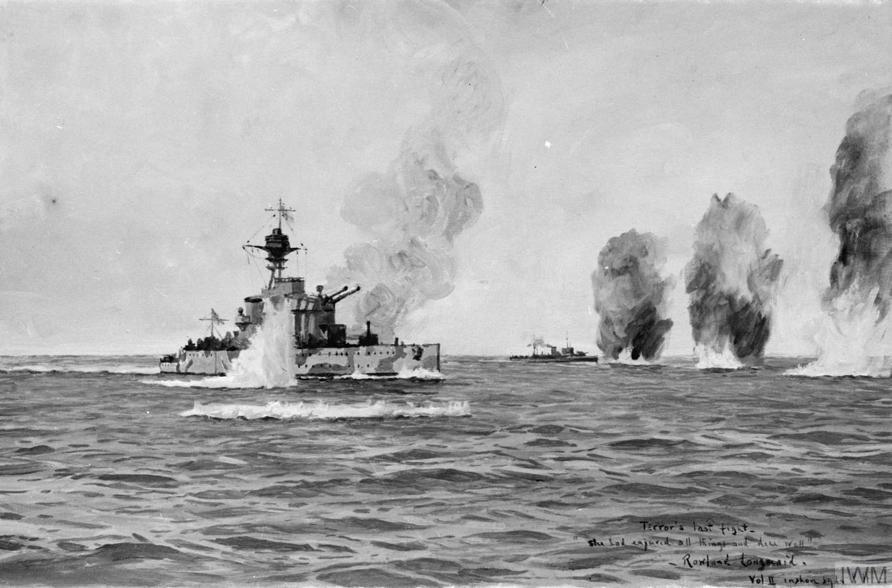 Photograph of painting titled, "Terror's last fight," depicting the aerial bombardment of HMS Terror by German bombers in February 1941, shortly before her sinking. Pictures For Illustrating Ritchie Ii Book. November and December 1942, Alexandria, Pictures of Paintings by Lieutenant Commander R Langmaid, Rn, Official Fleet Artist. These Pictures Are For Illustrating a Naval War Book by Paymaster Captain L a Da C Ritchie, Rn.